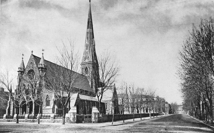 Photograph, Christ Church Cathedral, St. Catherine Street, Montreal, QC, 1869, Alexander Henderson, Silver salts on paper mounted on card - Albumen process - 16 x 21 cm